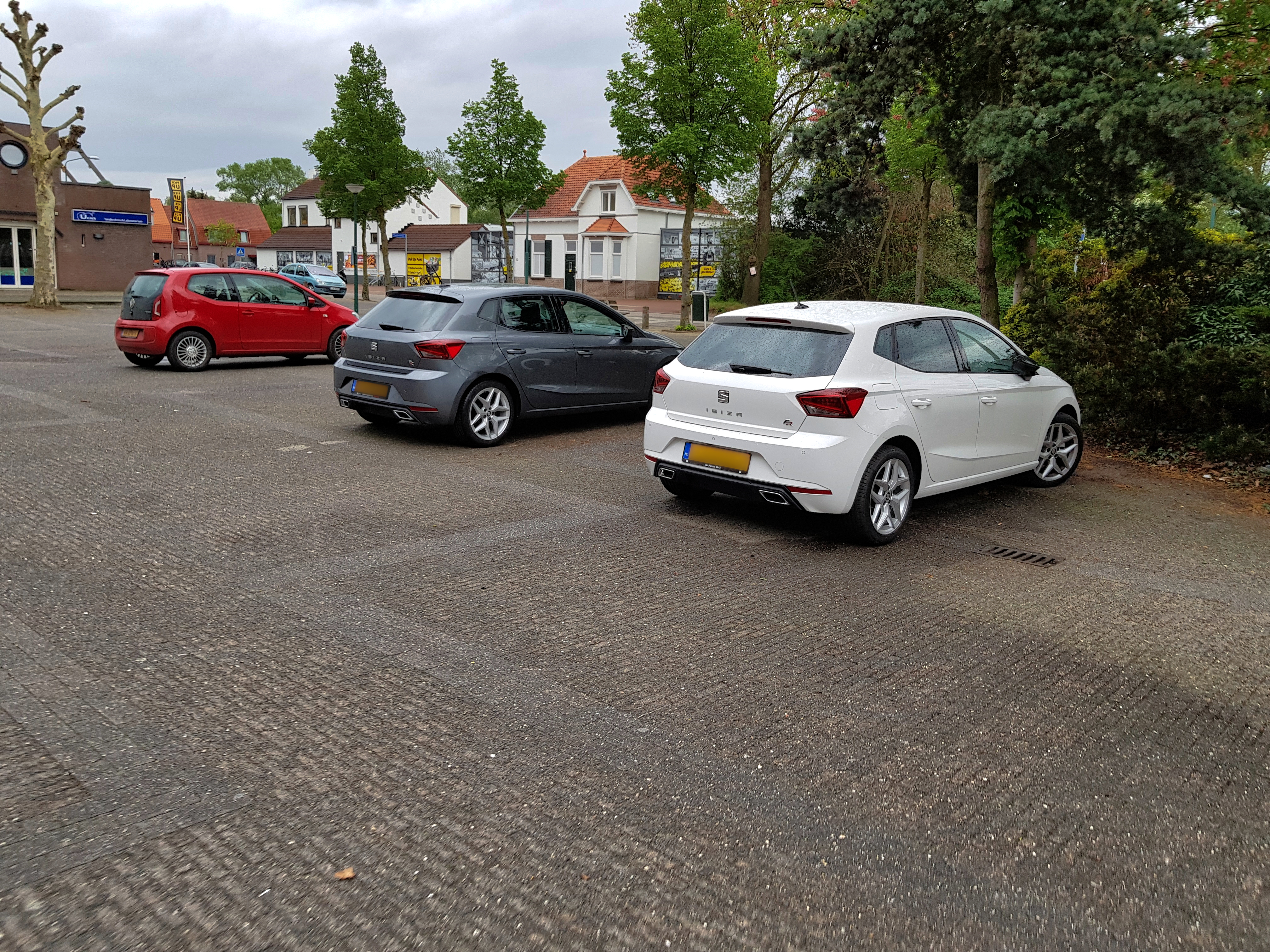 A rear view of the Seat Ibiza FR (2018)